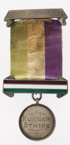 Used under Copyright Museums Victoria / CC BY (Licensed as Attribution 4.0 International) from Victoria Museums in Australia